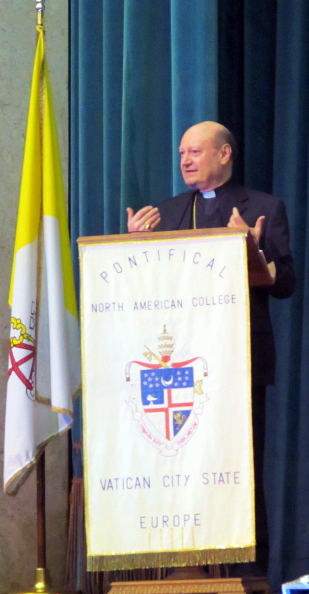 Discussion: "Building Bridges of Opportunity: Migration and Diversity", organised by the U.S. Embassy to the Holy See on 8 March 2012. Guest speaker: His Eminence Cardinal Gianfranco Ravasi, President Pontifical Council for Culture; H.E. Miguel H Diaz, Ambassador of the U.S. to the Holy See.